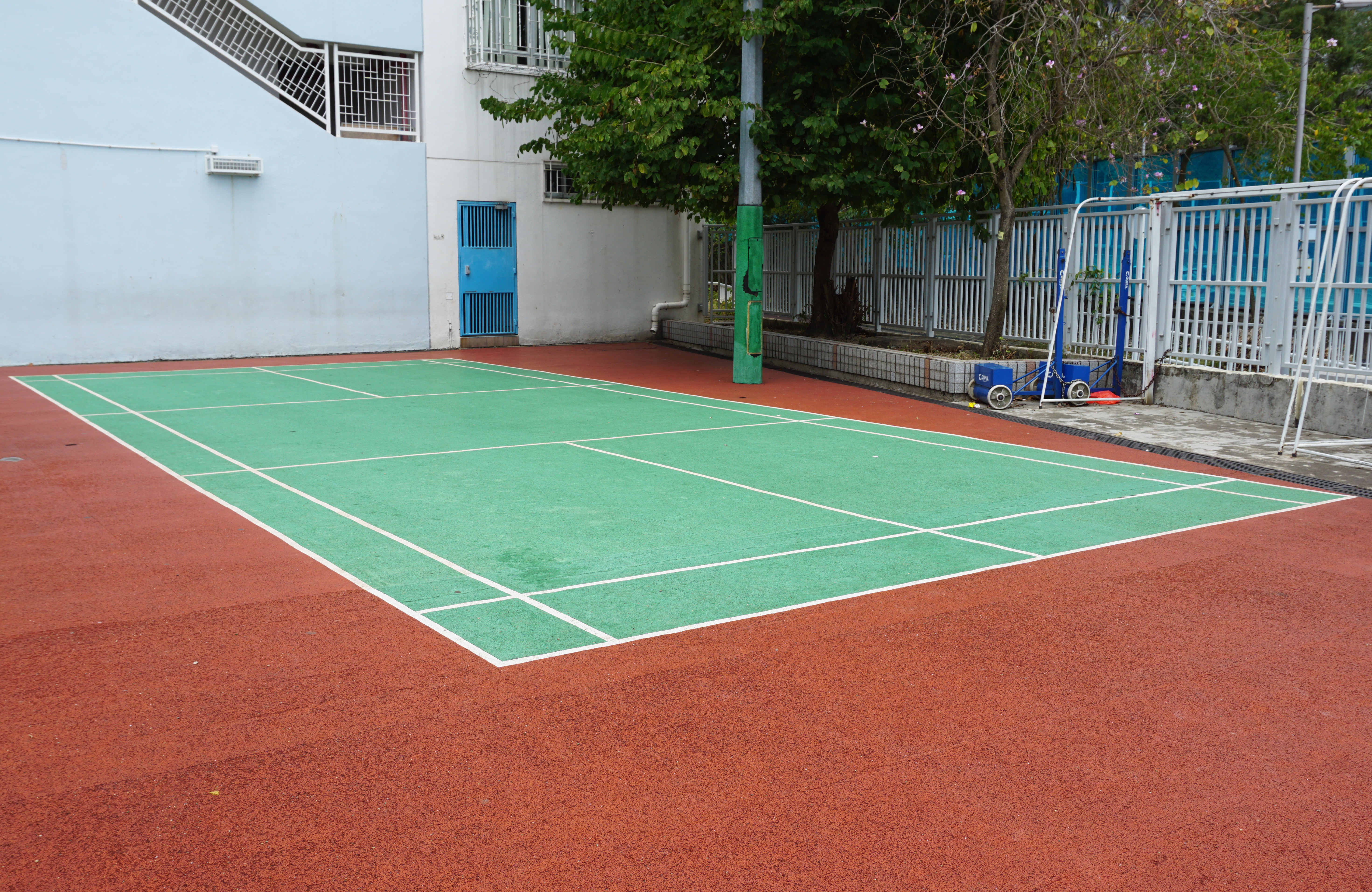 Wo Che Estate in Shatin, Hong Kong.